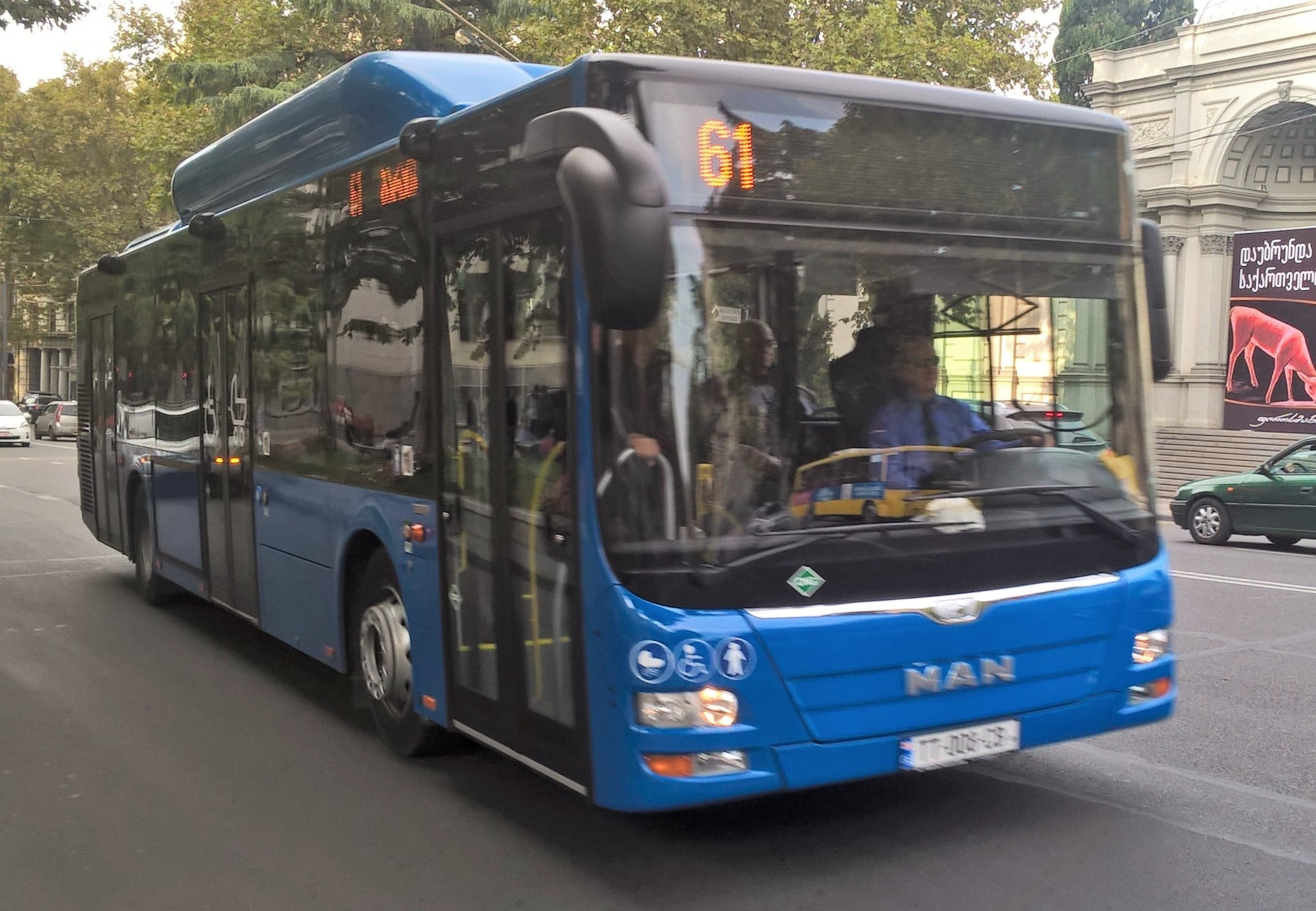 Tbilisi's new city bus - MAN Lion's city A21 CNG